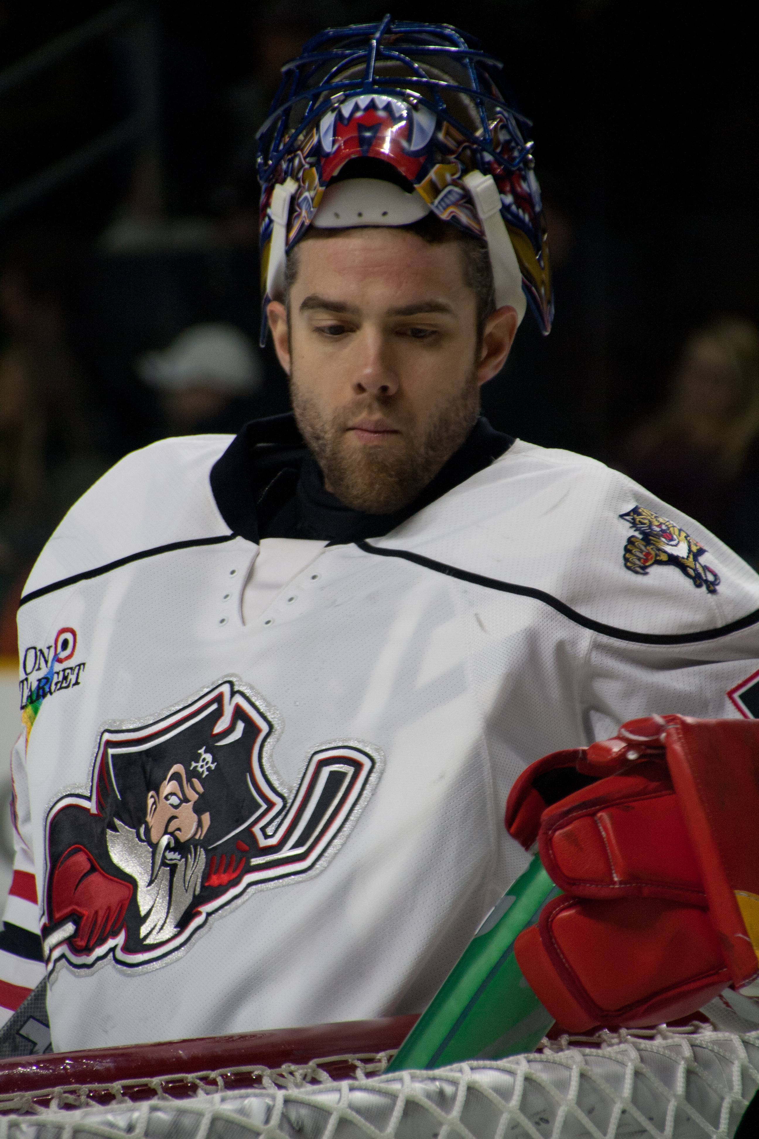 Mike McKenna with the Portland Pirates 2015